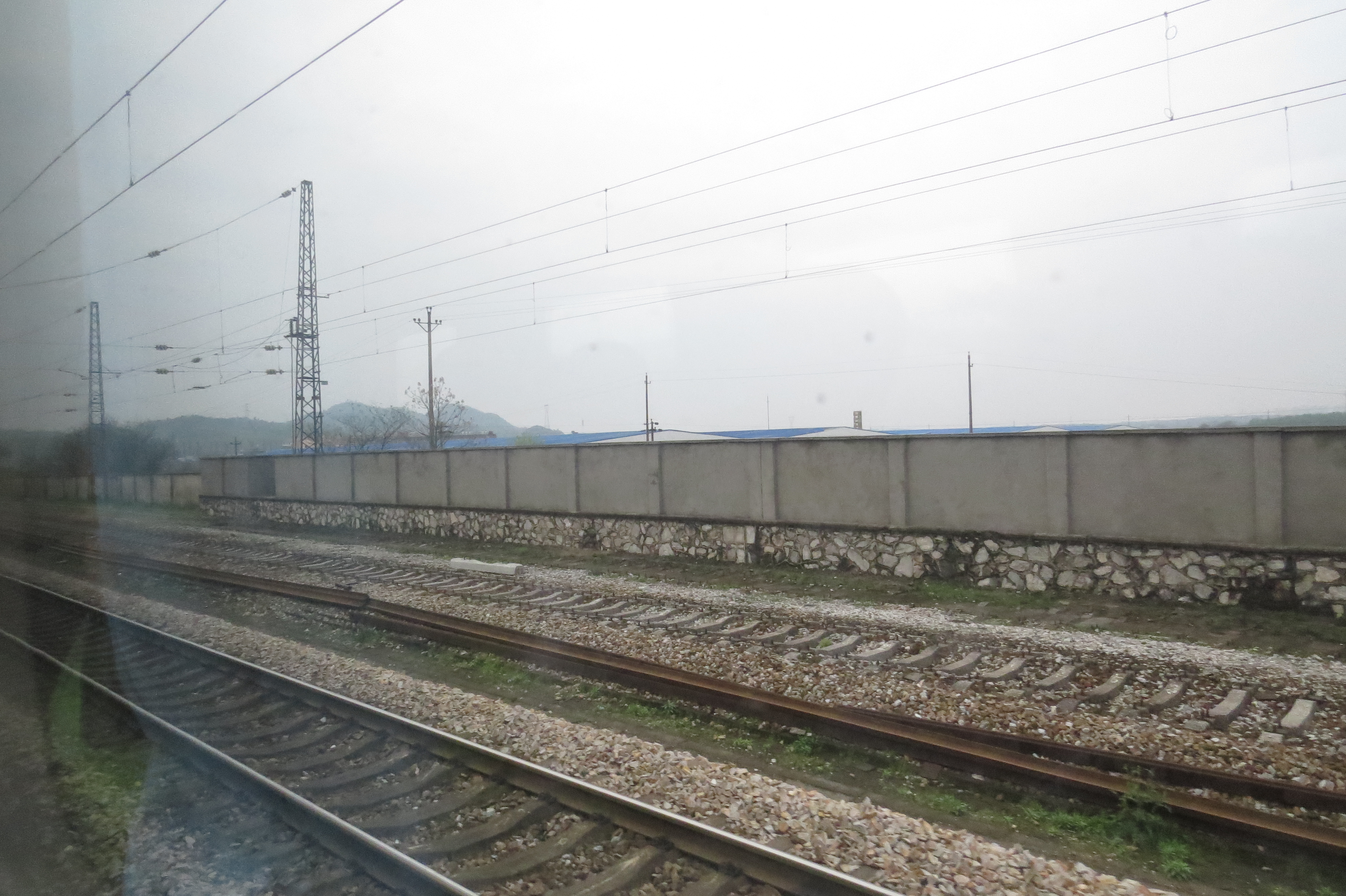 The outer tracks have been removed...